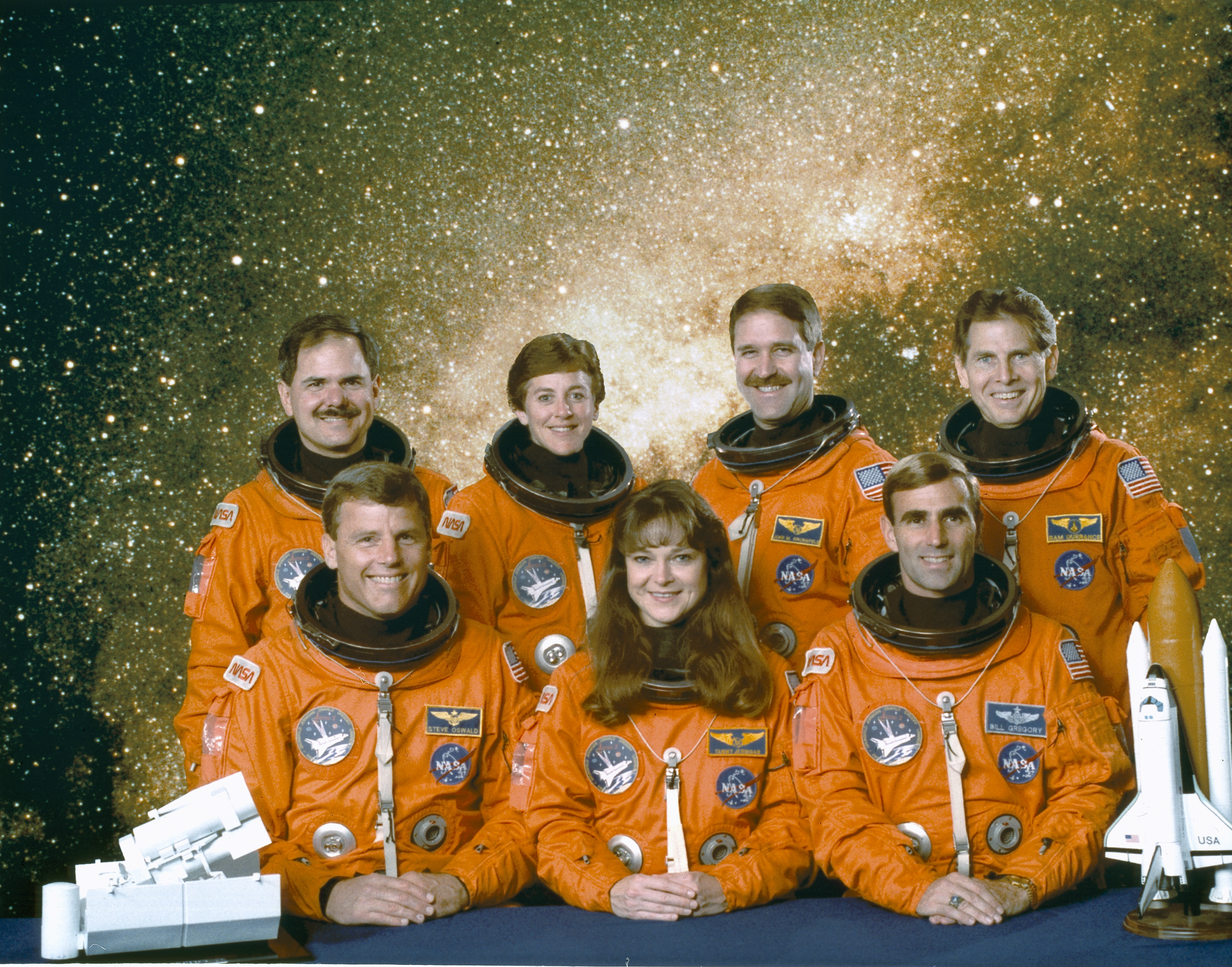 STS-67 Crew The crew assigned to the STS-67 mission included (front left to right) Stephen S. Oswald, commander; Tamara E. Jernigan, payload commander; and William G. (Bill) Gregory, pilot. On the back row (left to right) are Ronald A. Parise, payload specialist; Wendy B. Lawrence, mission specialist; John M. Grunsfeld, mission specialist; and Samual T. Durrance, payload specialist. Launched aboard the Space Shuttle Endeavour on March 2, 1995 at 1:38:13 am (EST), the STS-67 mission's primary payload was the Astro Observatory-2 (ASTRO-2).